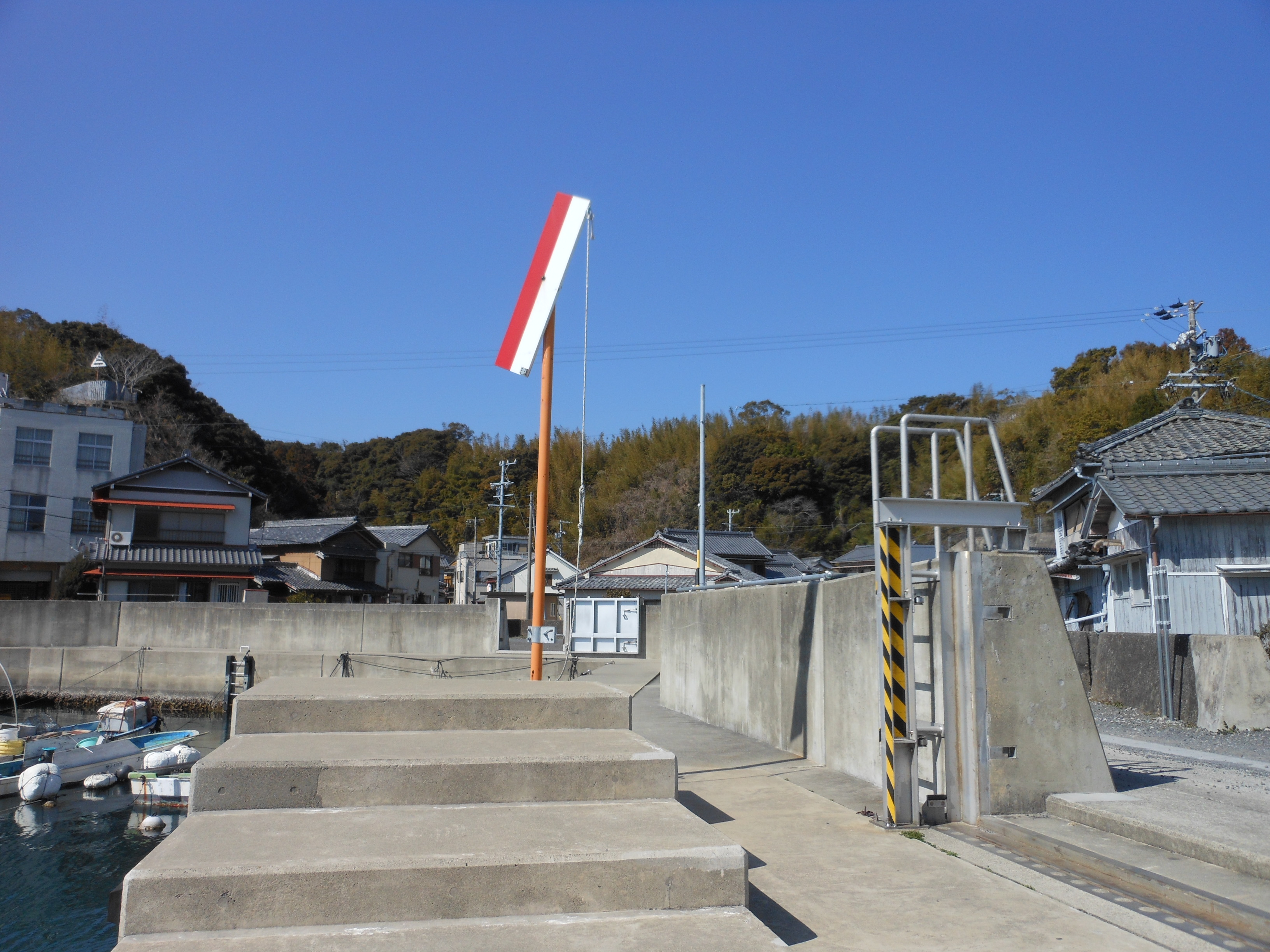 The Port of Matoya in Isobecho-Matoya, Shima City, Mie Prefecture, Japan